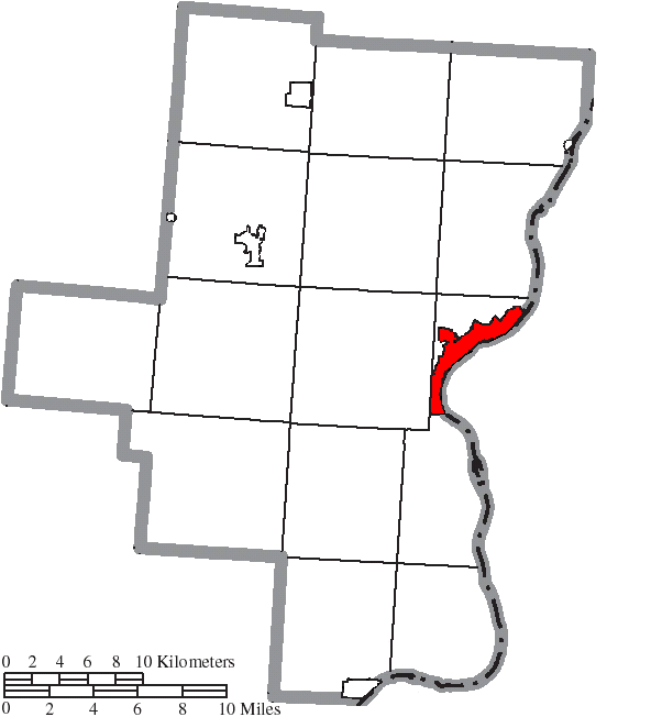 Map of the municipal and township boundaries of Gallia County, Ohio, United States, as of the 2000 census, with the location of the village of Gallipolis highlighted. Township borders are shown only in unincorporated areas in order to differentiate incorporated and unincorporated areas more clearly.